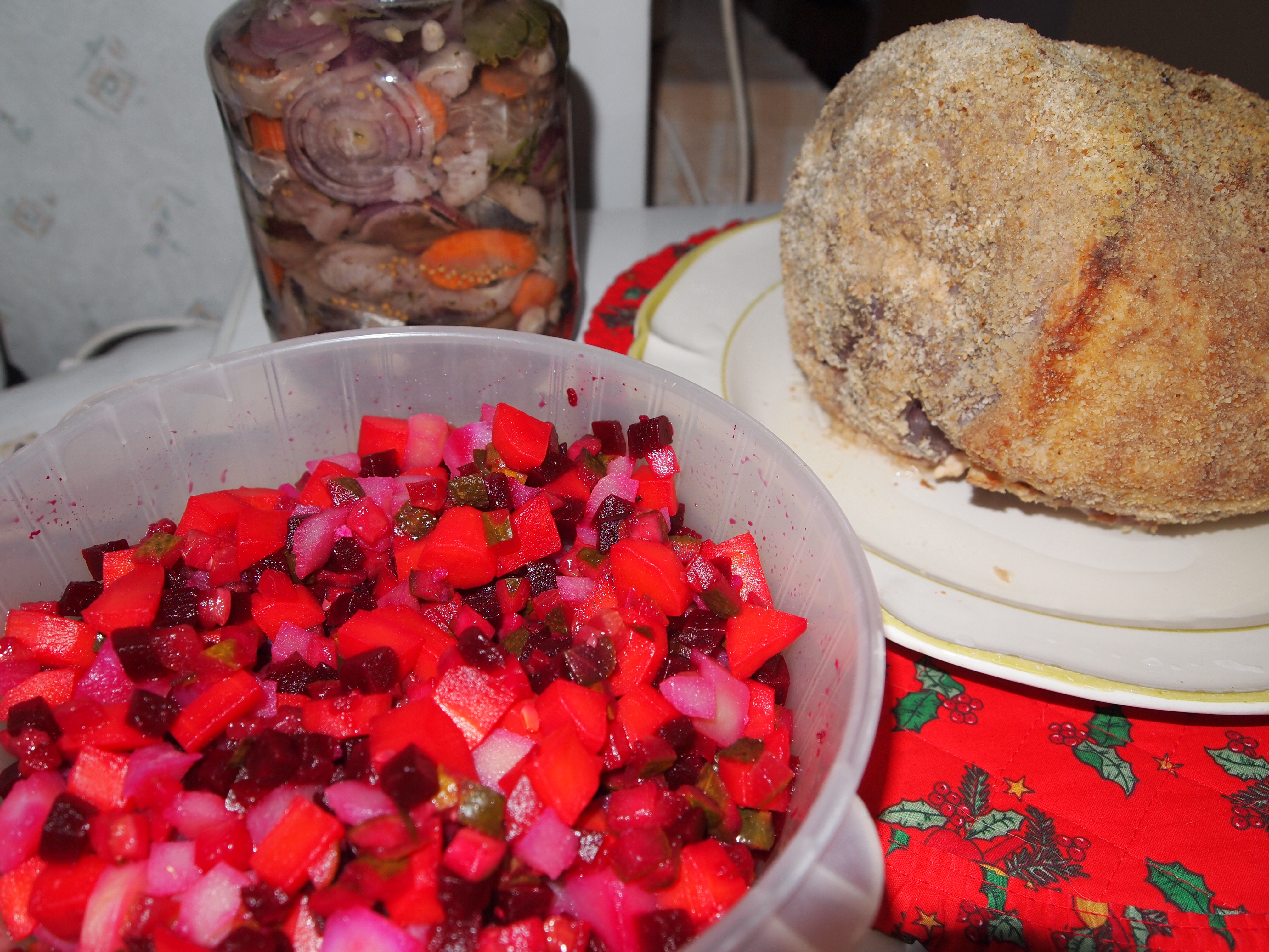 Rosolli and other (Finnish) Christmas dishes